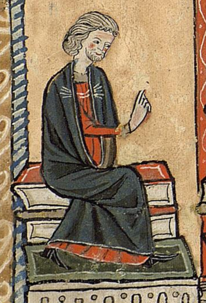 Bermudo Pérez de Traba, as identified in Iconologie des infantes (Tumbo A et Tumbo B de la cathédrale de Saint-Jacques de Compostelle et Tumbo de Touxos Outos)